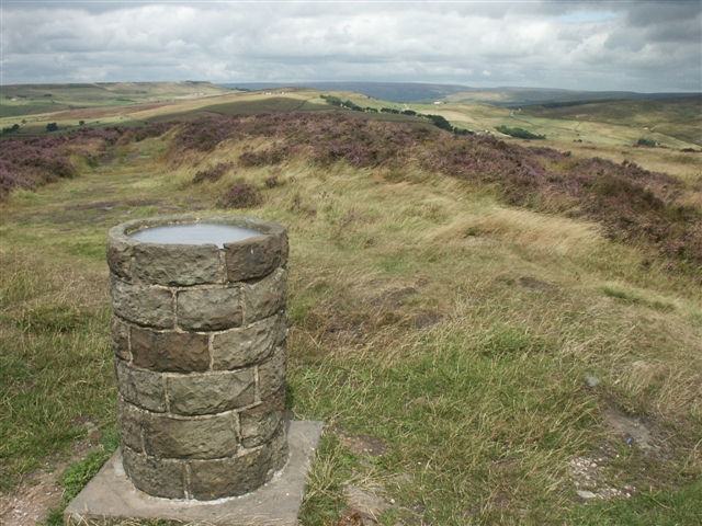 Toposcope, Lantern Pike. Also a monument, alas I forgot to record to whom... please contact me if you know, and I will add the info (credited of course!).